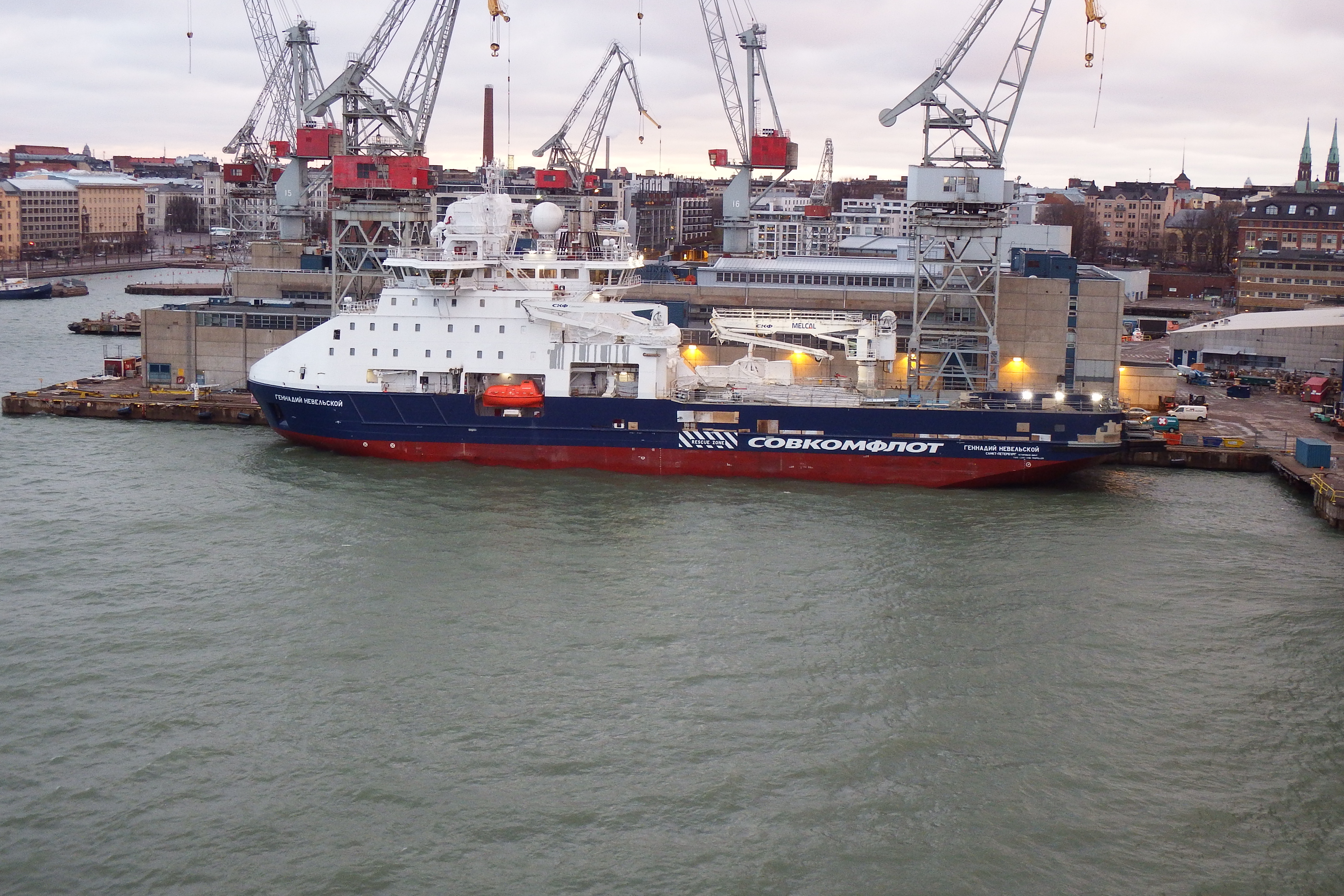 MS "Gennady Nevelskoj" at the shipyard in Helsinki